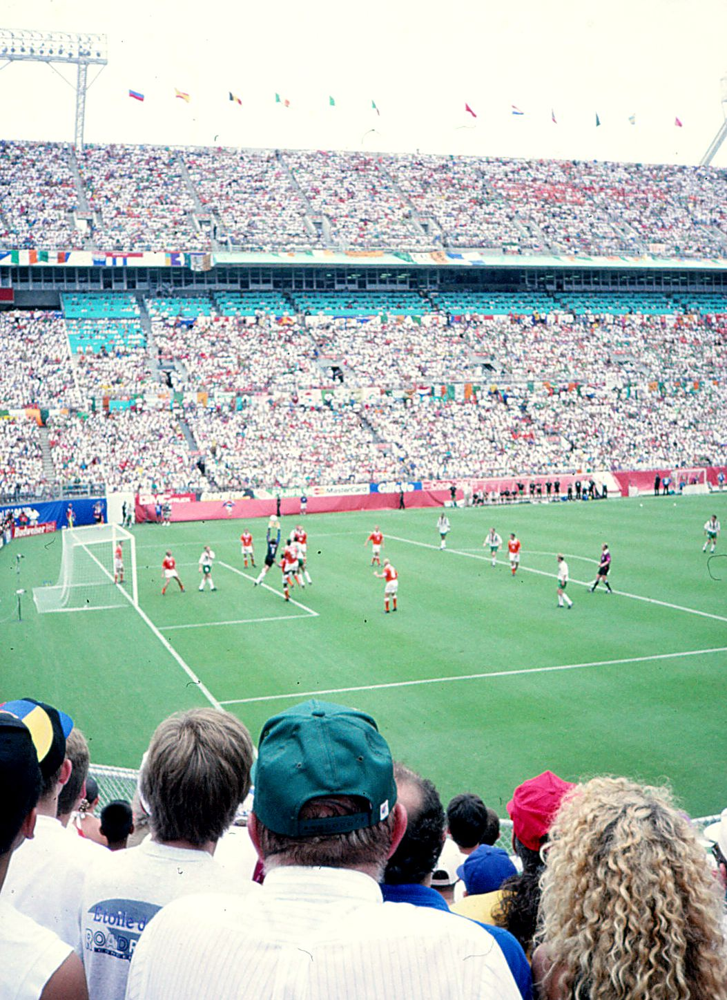 WM Football (Soccer) at the Citrus Bowl in Orlando, Florida on July 4, 1994. Ireland lost 0-2 to Holland. Referee was Peter Mikkelsen, Denmark